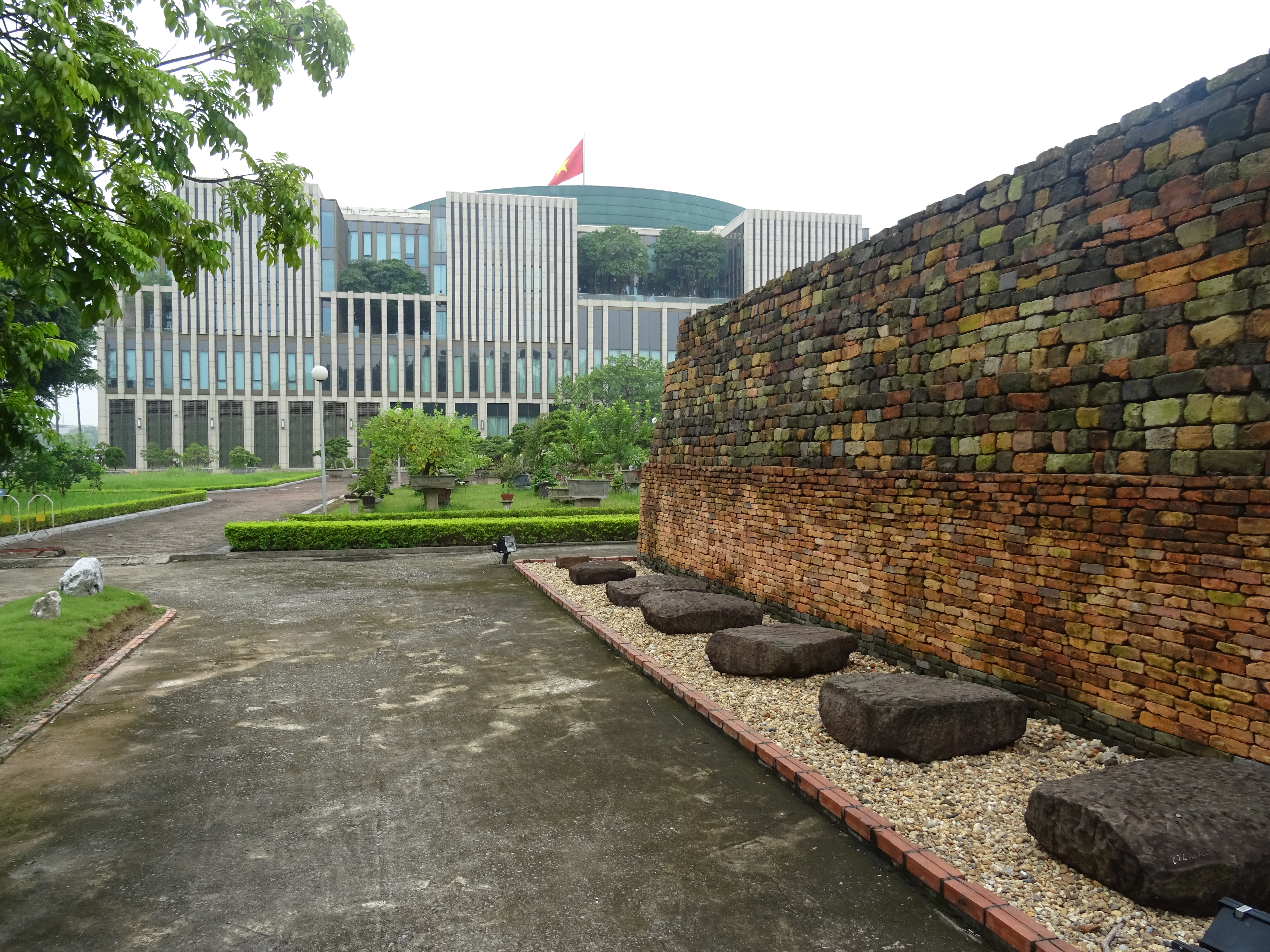 The building of the vietnamese National Assembly in Hanoi.